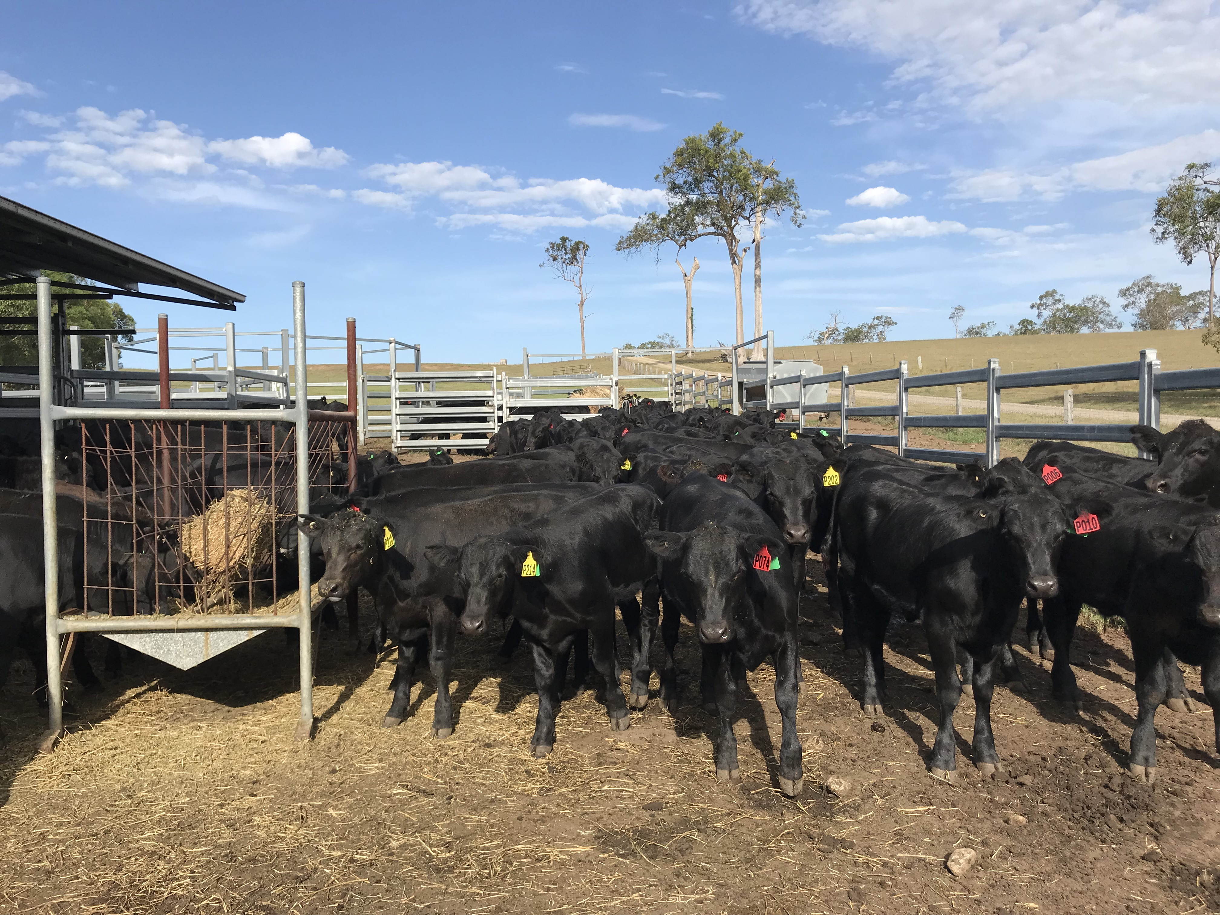 These are pure Angus cattle who were brought in to be weaned.